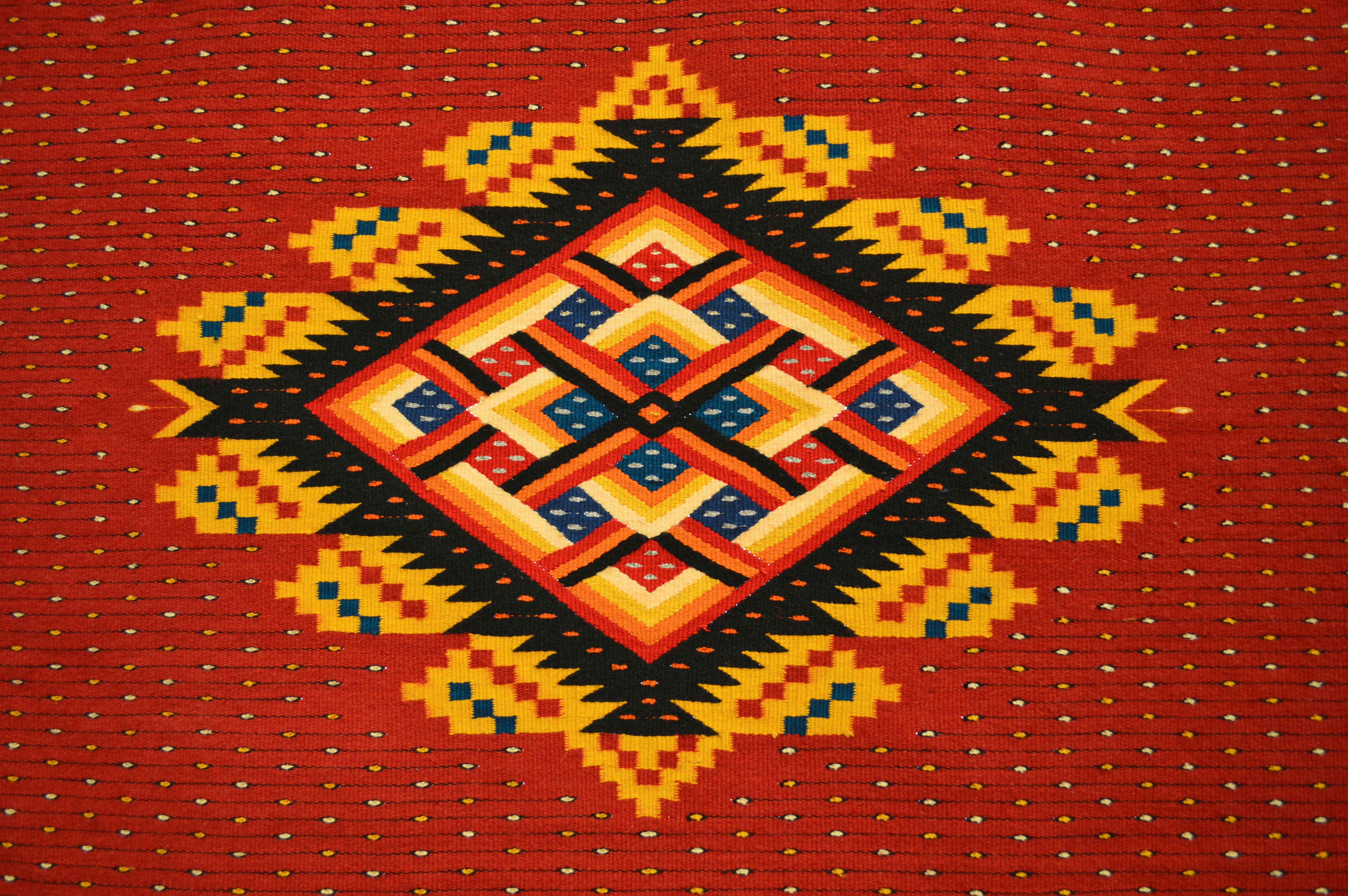 Woven rug of cotton and silk in tradicional design by Arnulfo Mendoza at the Museo de los Pintores Oaxaqueños in the city of Oaxaca